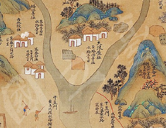 Part of Kangxi Taiwan Map(康熙臺灣輿圖)